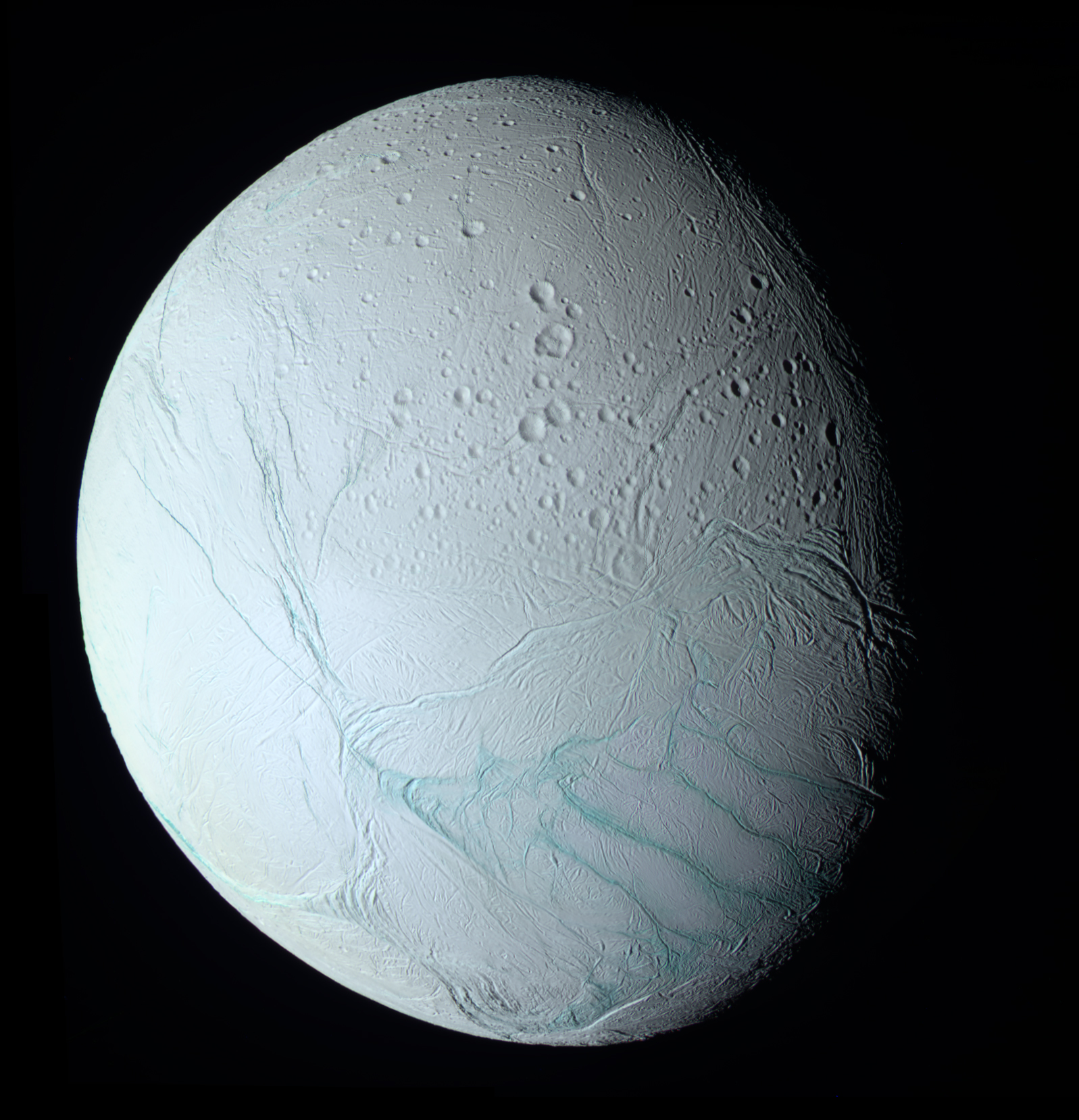 Assembled using infrared, green, and ultraviolet (IR3, GRN, UV3) filtered images of Enceladus taken by Cassini on July 14 2005. NASA/JPL-Caltech/SSI/Kevin M. Gill